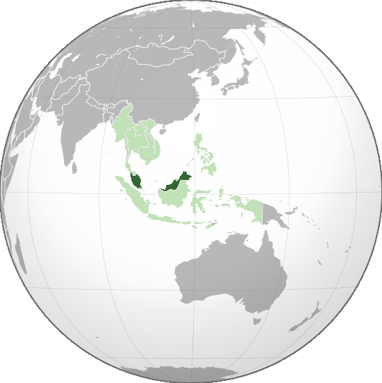 Malaysia in ASEAN